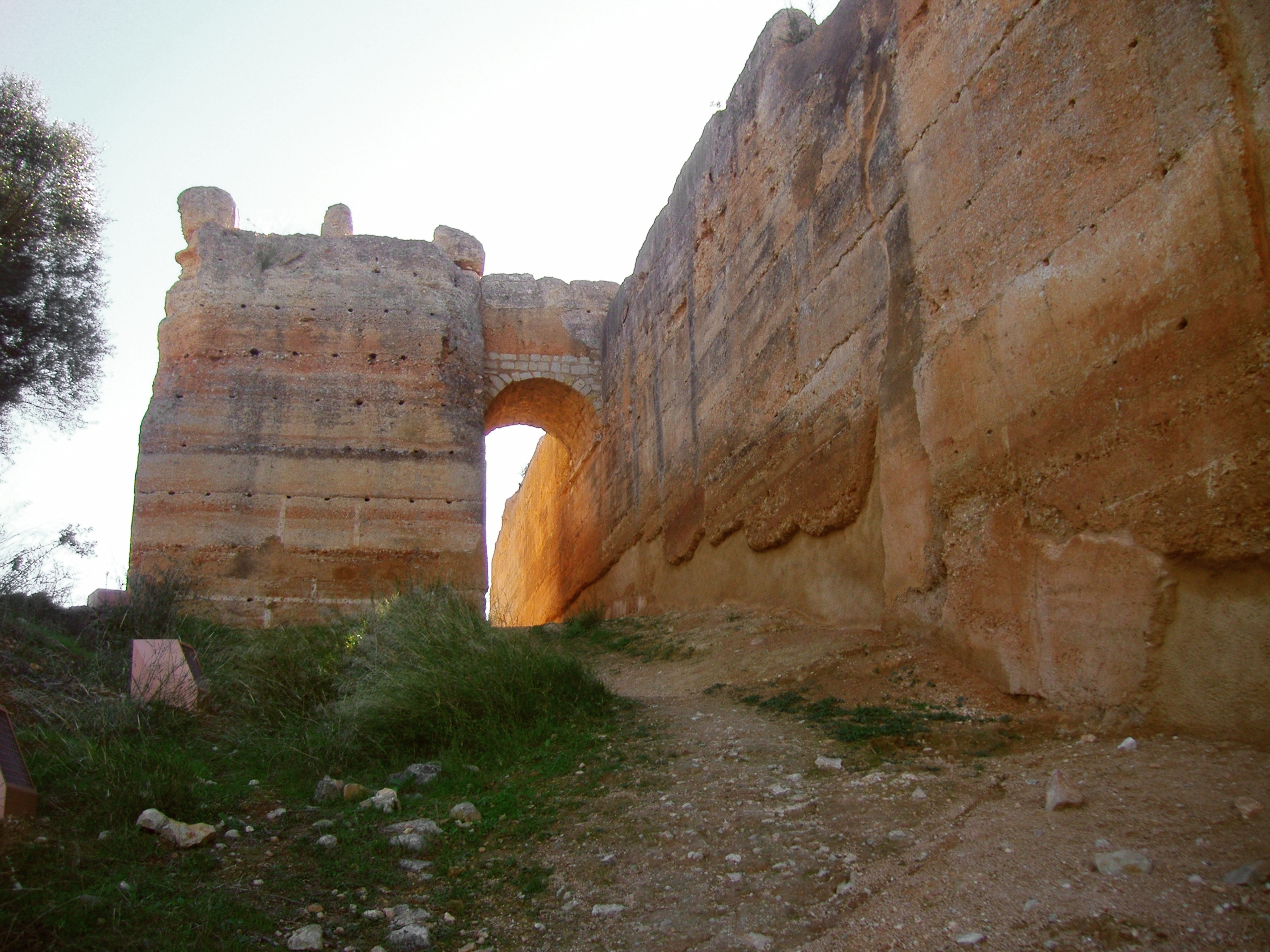 Paderne Morrish Castle in the Algarve Portugal November 2007 Photo taken by Beechgrove